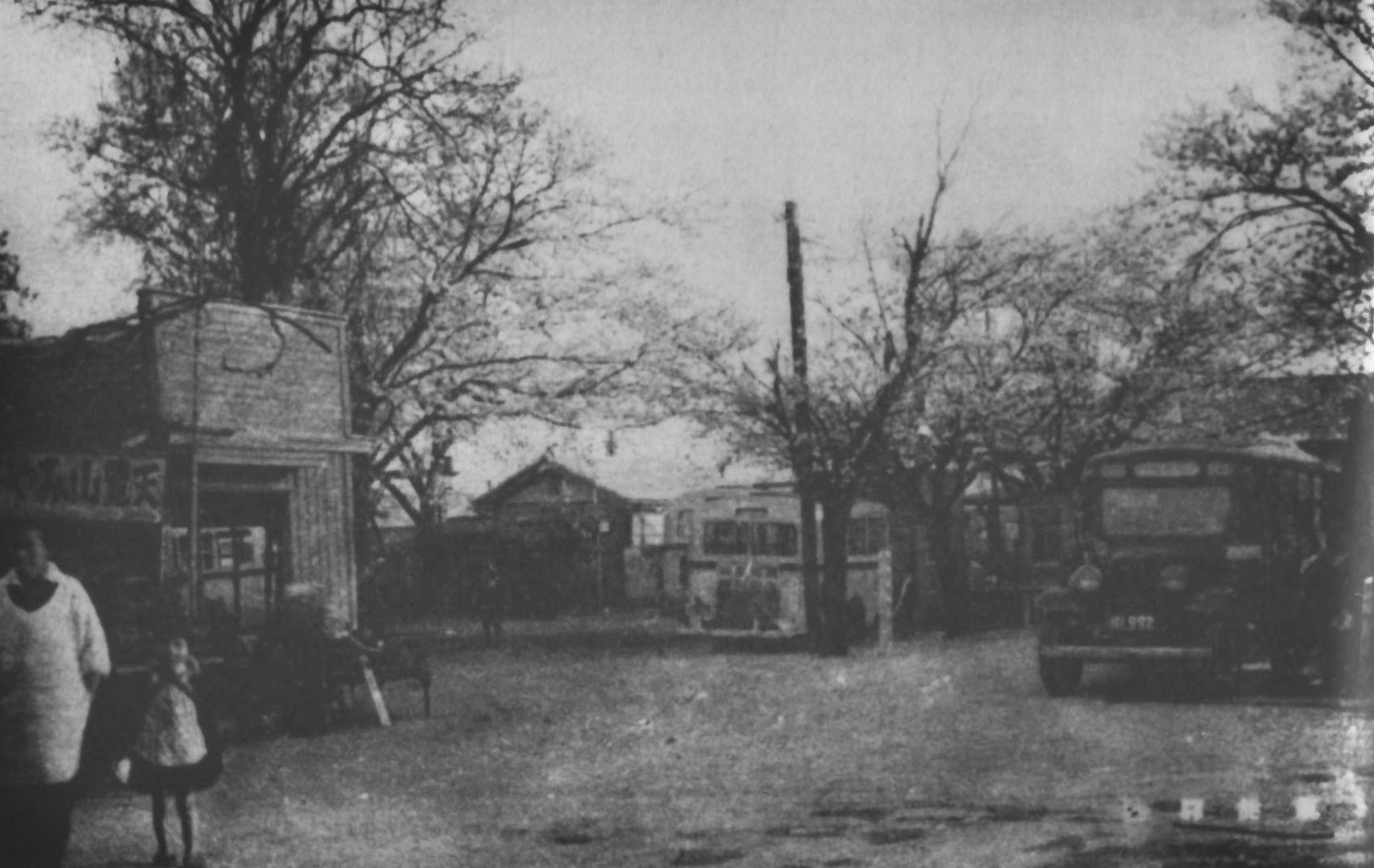 The station forecourt of Hanno Station in Saitama Prefecture